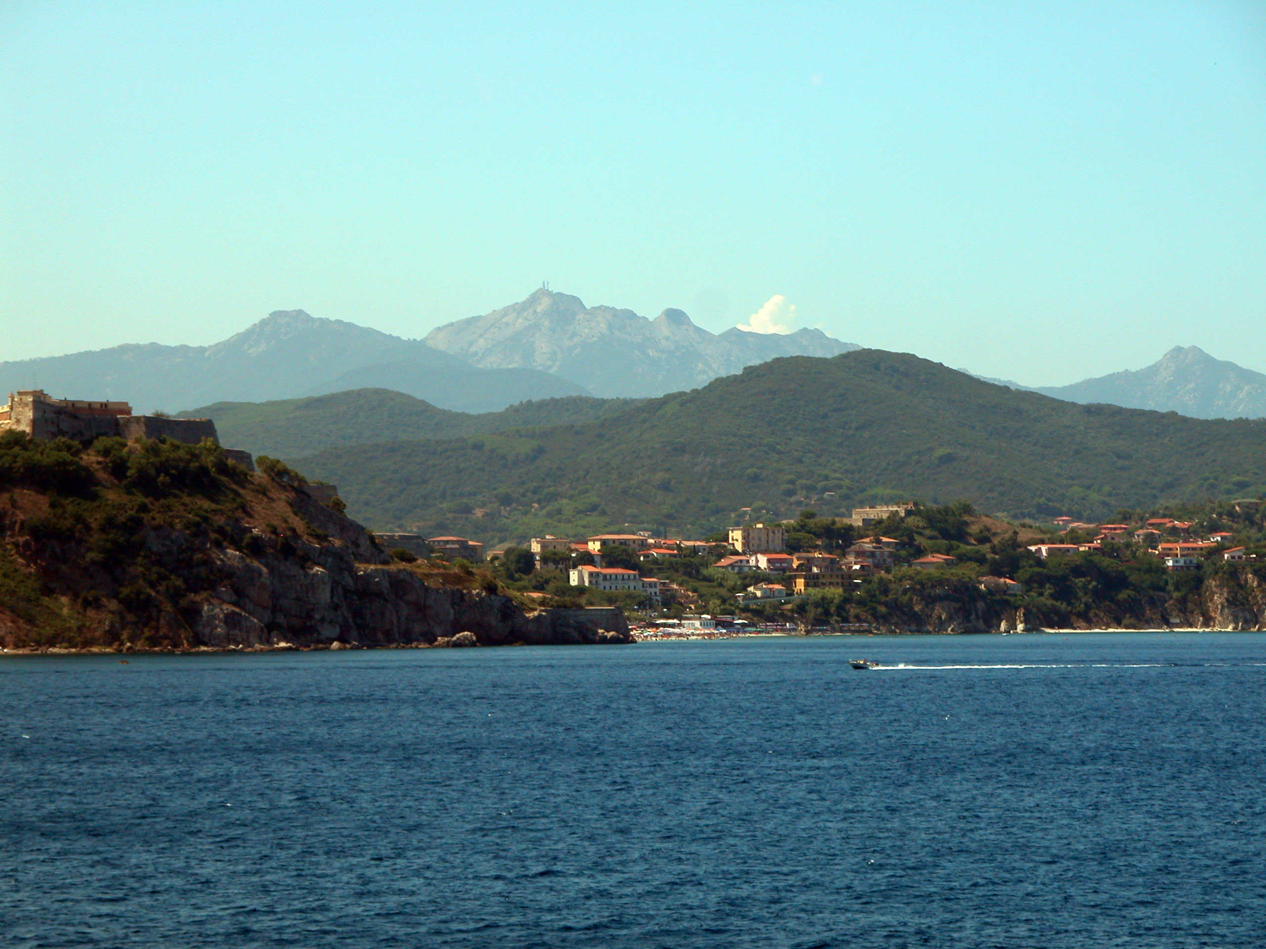 View of the coast (Portoferraio) of the Elba island